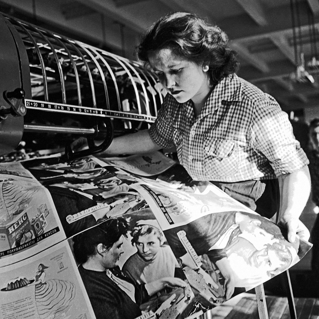 “Surveyor of the newspaper "Pravda" printing works”. Lidya Kulagina, a Surveyor of the newspaper "Pravda" print shop at work.